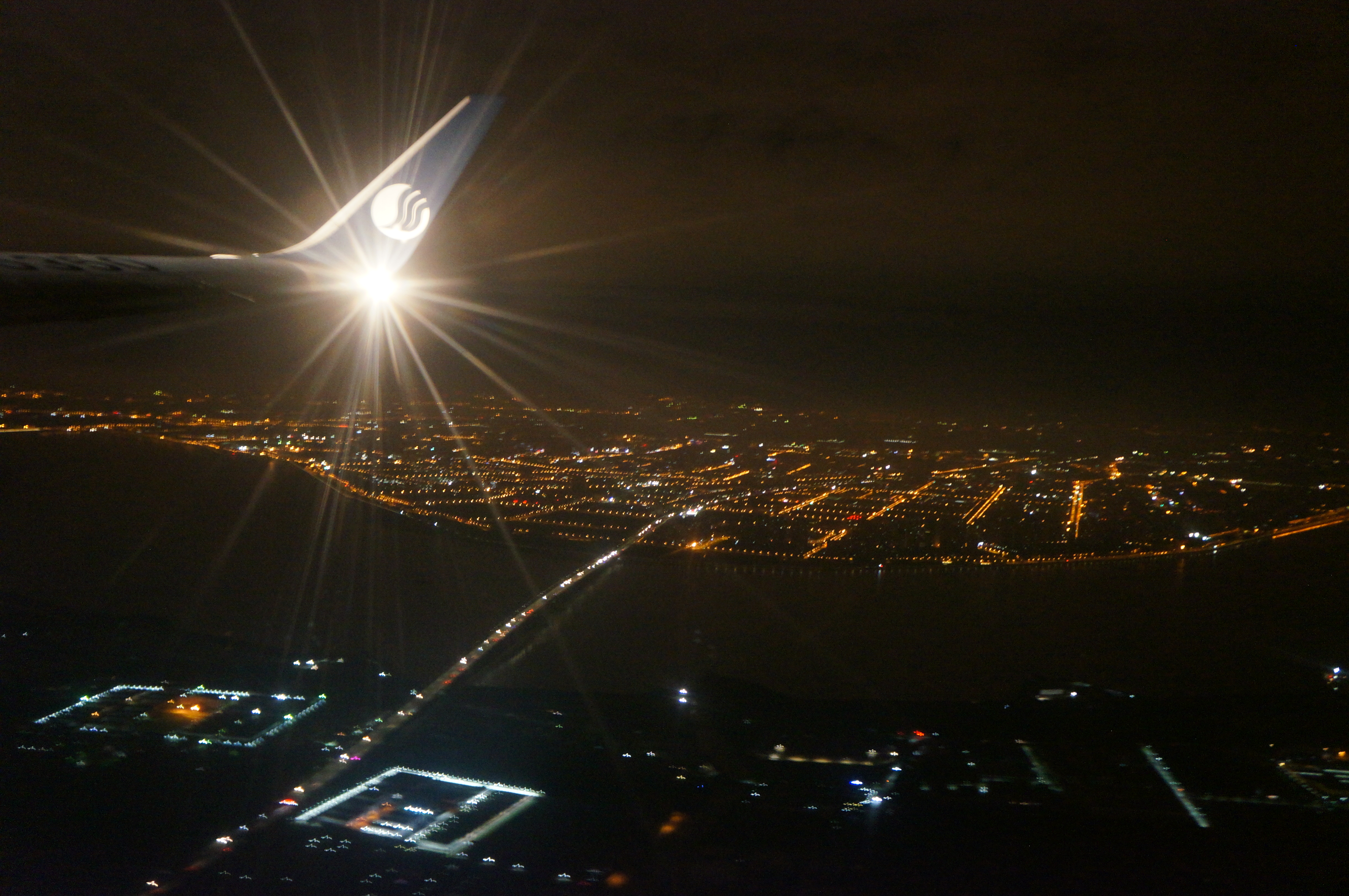 201708 Xiasha at night. Thankfully the flight took off from the RWY 24R.